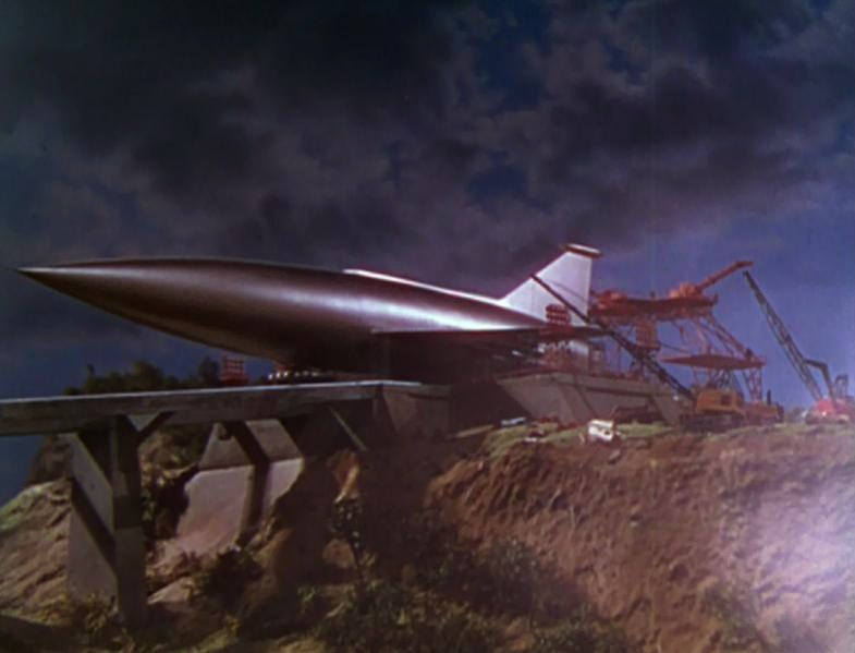 When Worlds Collide (1951) - trailer (cropped screenshot)